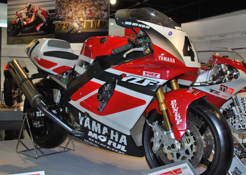 Yamaha YZF750 OWJ6, WSBK 1998, Noriyuki Haga